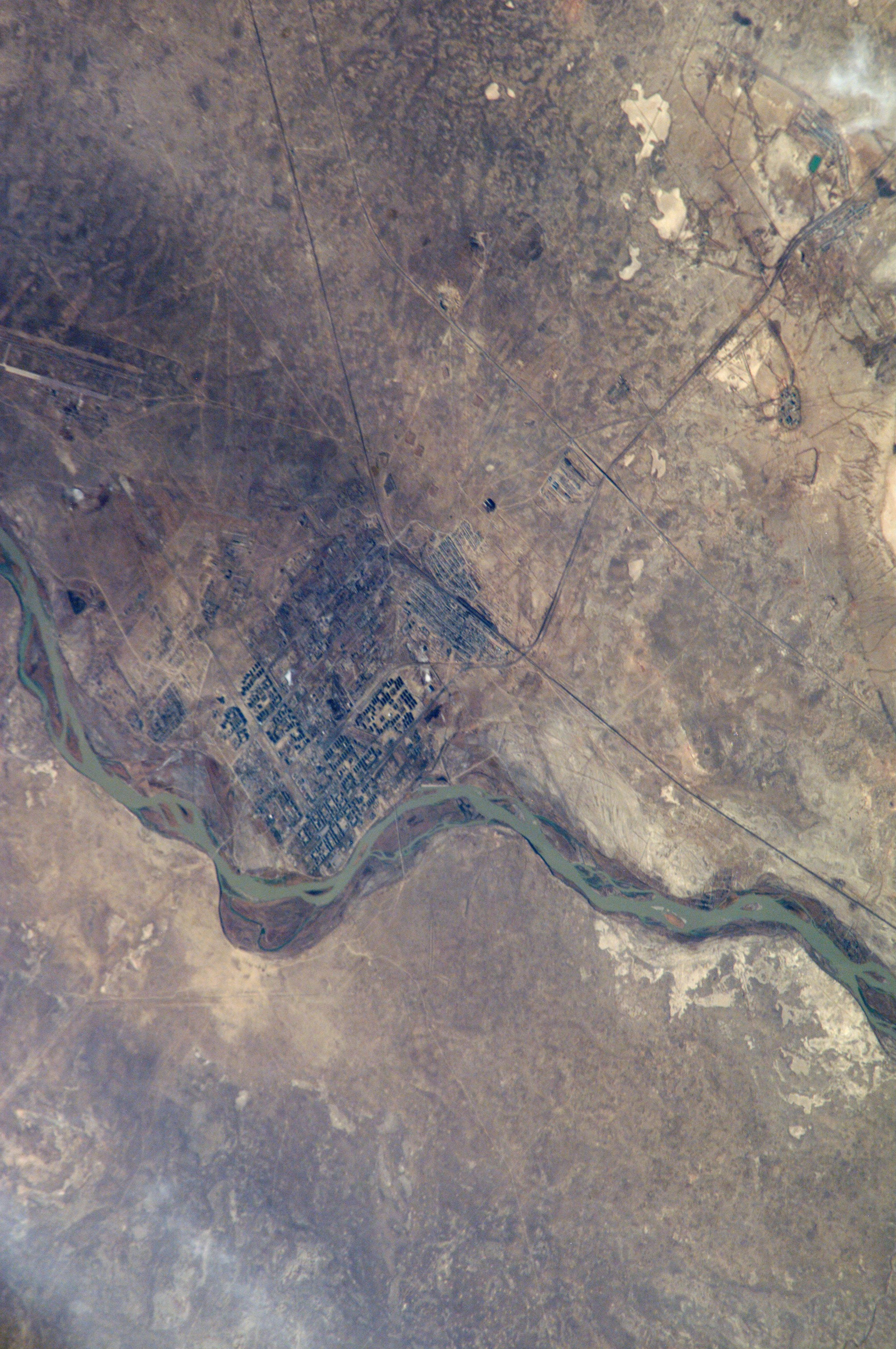 Baikonur (Town) and Syrdarya River from top, 26 October 2002